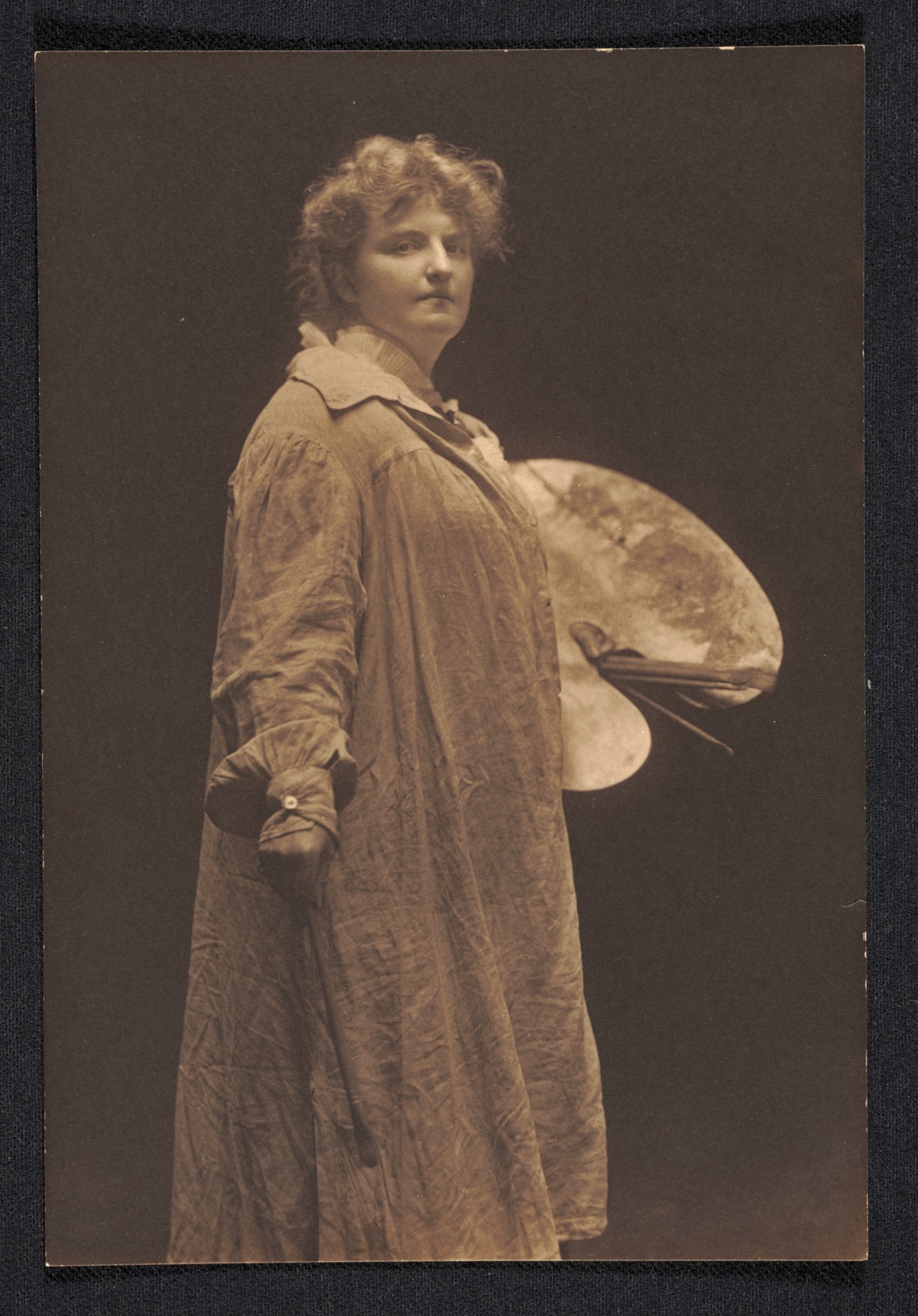 Portrait of Katherine Dreier holding an artist's palette.